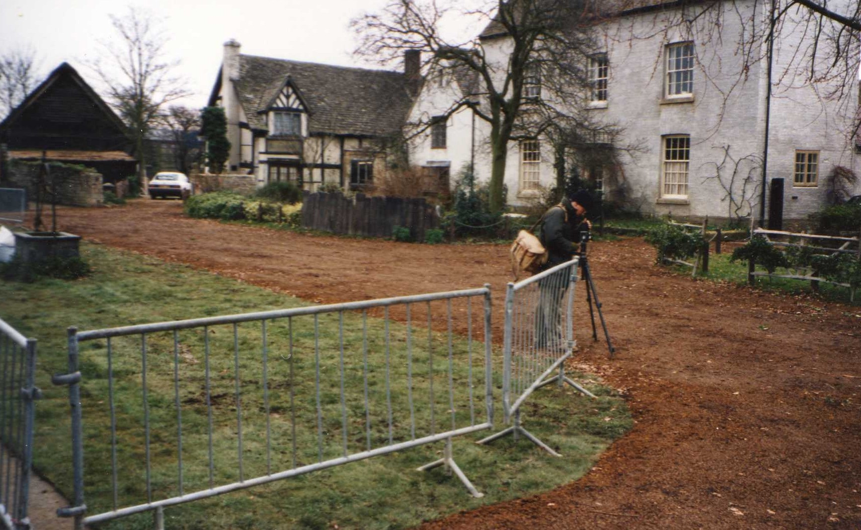 i took picture in 1993